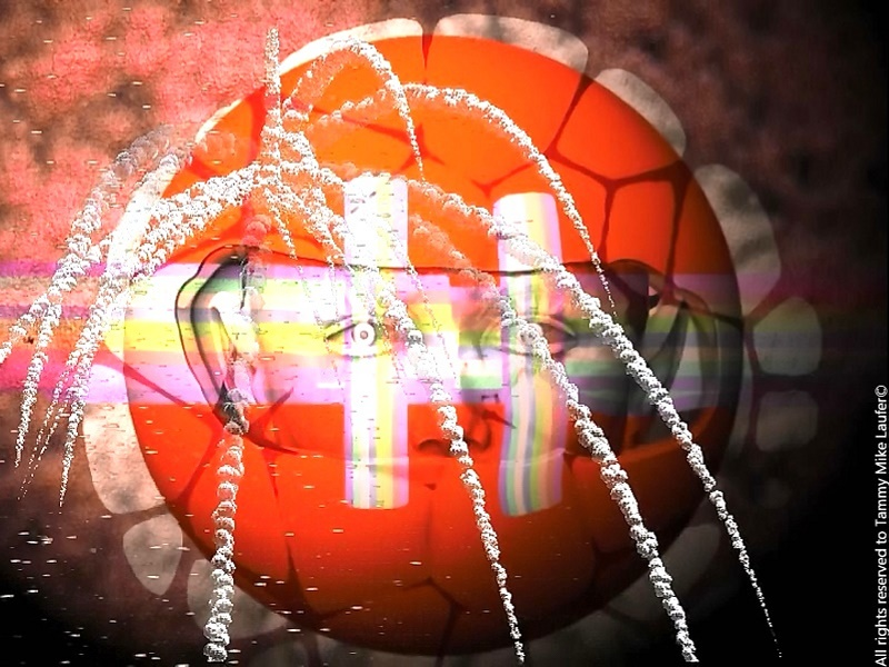 My visions of war, digital drawing 2009, by Tammy Mike Laufer